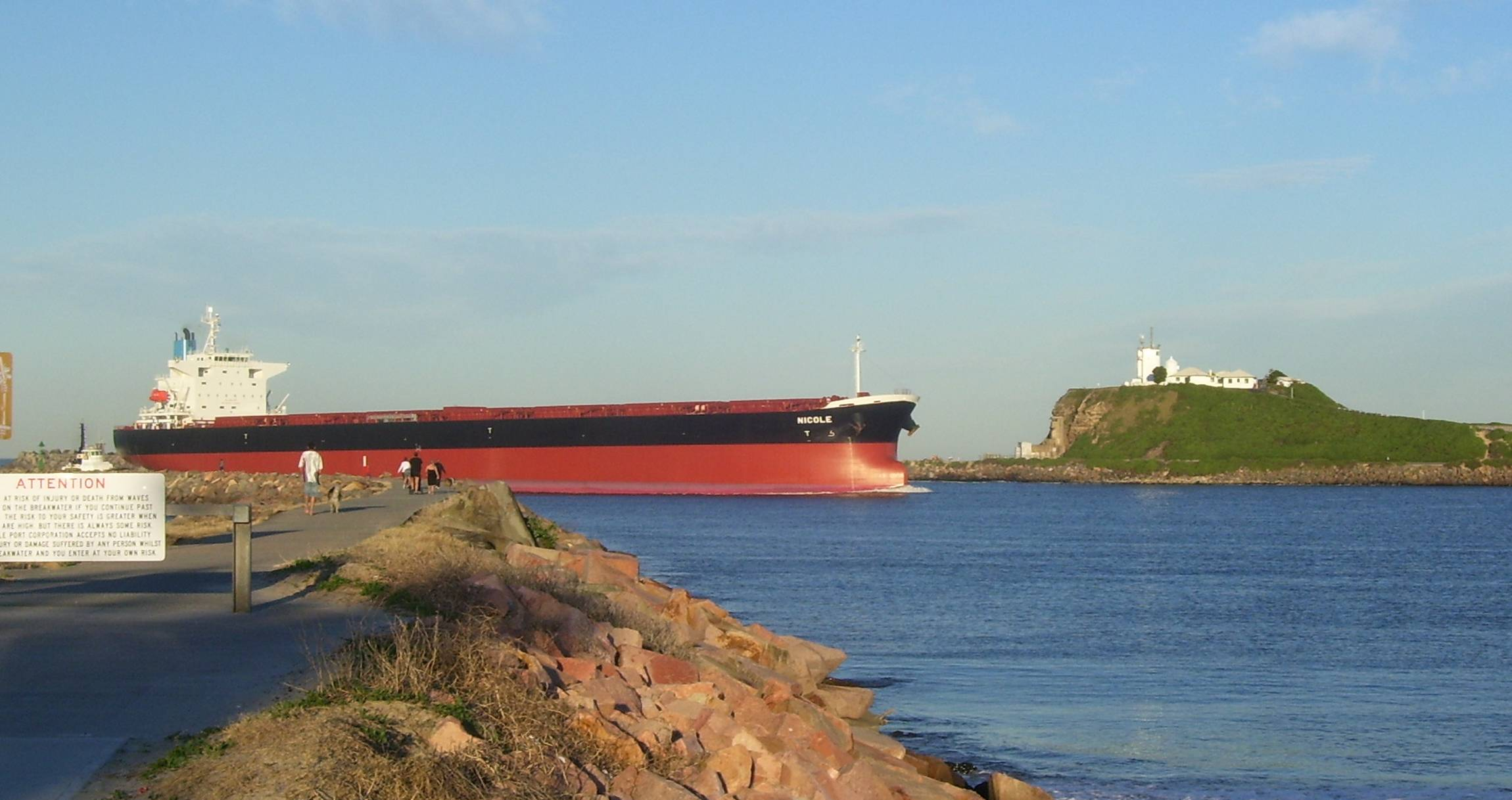 Bulk carrier Nicole entering Newcastle Harbour. Image was taken at the shore end of the Stockton breakwall on Shipwreck walk